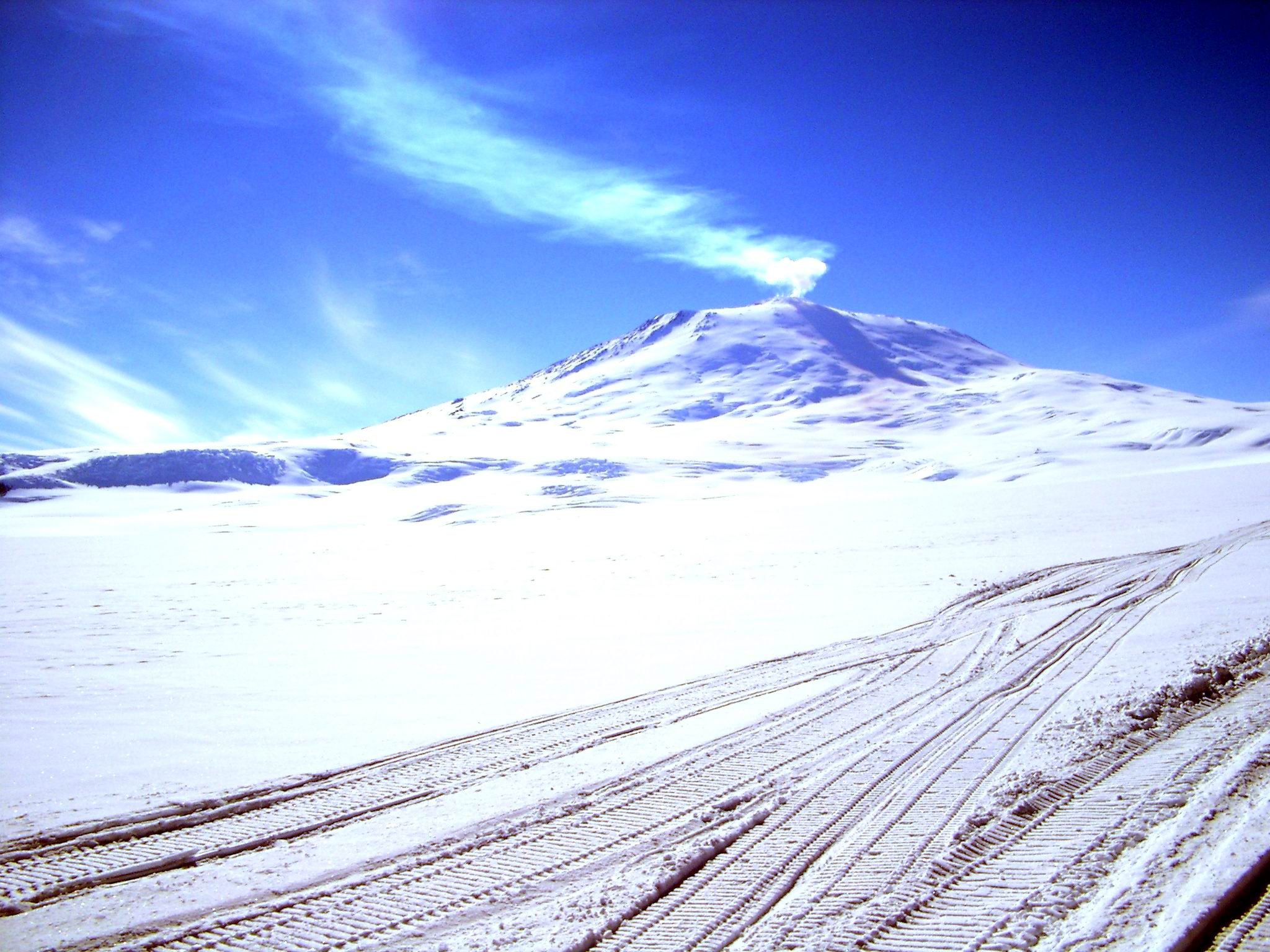 Mount Erebus, Ross Island, Antarctica. This volcano is still actives.